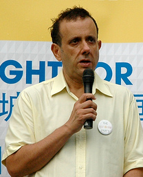 Kenneth Jeyaretnam, the Secretary-General of the Reform Party, speaking during a rally at Speakers' Corner, Singapore.